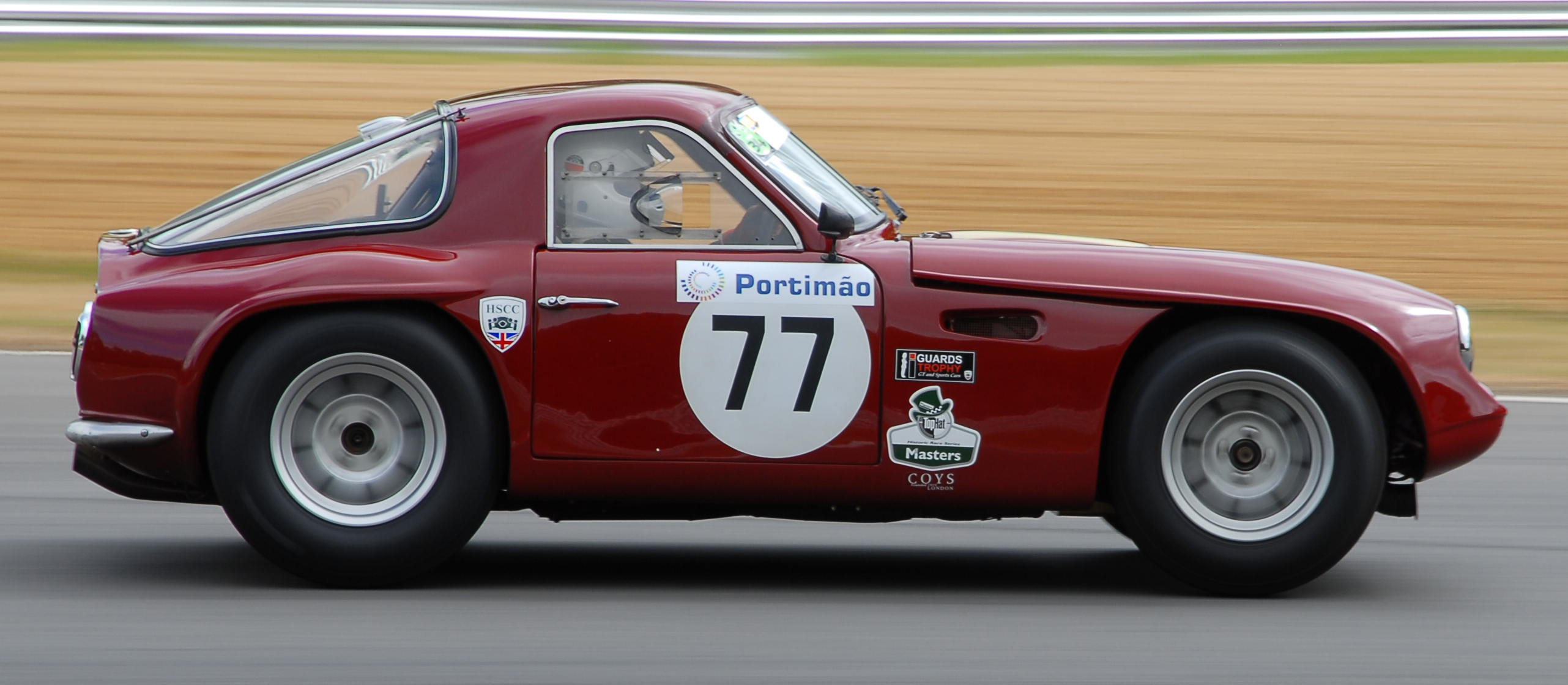 1965 TVR Griffith 400 (289 engine) at the Masters Historic Festival, Brands Hatch, 2011.